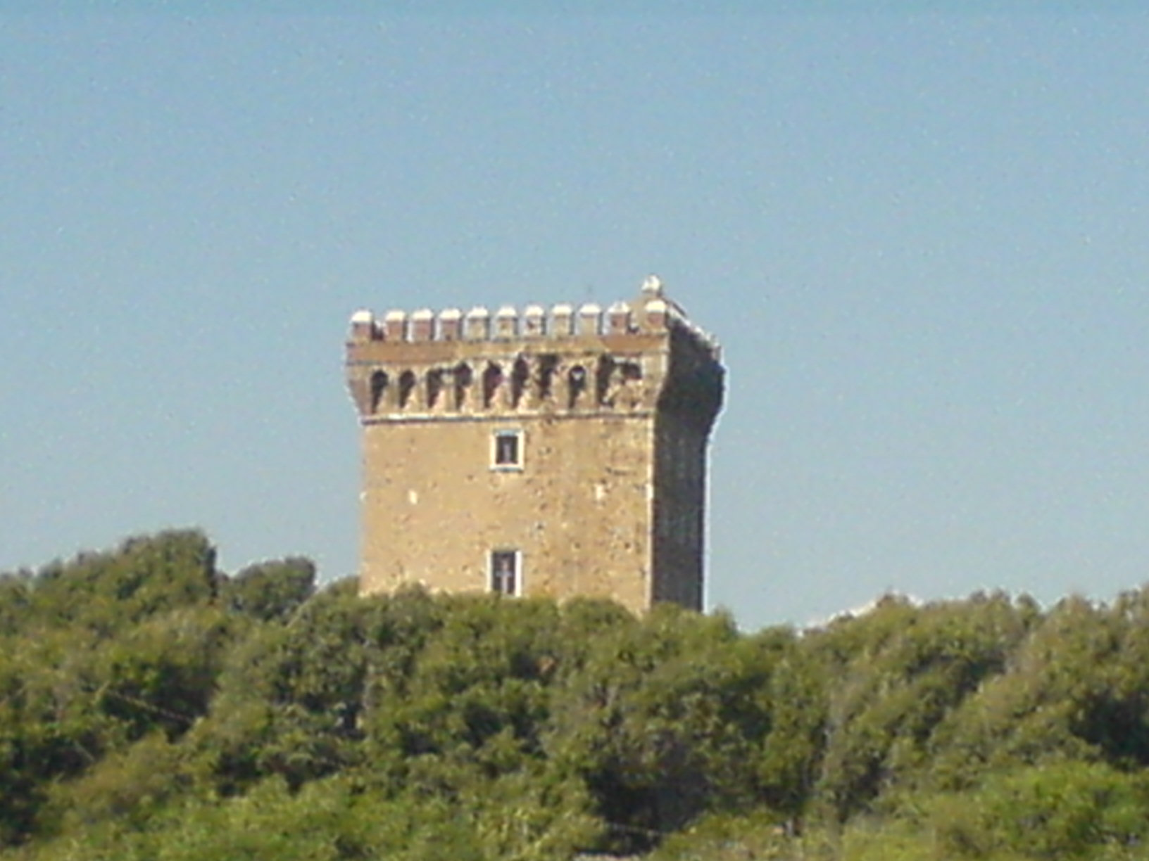 Torre di San Lorenzo near Ardea (RM).